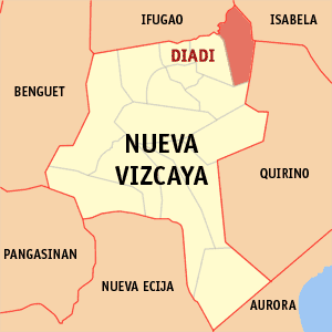 Map of Nueva Vizcaya showing the location of Diadi